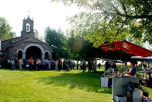 ermita